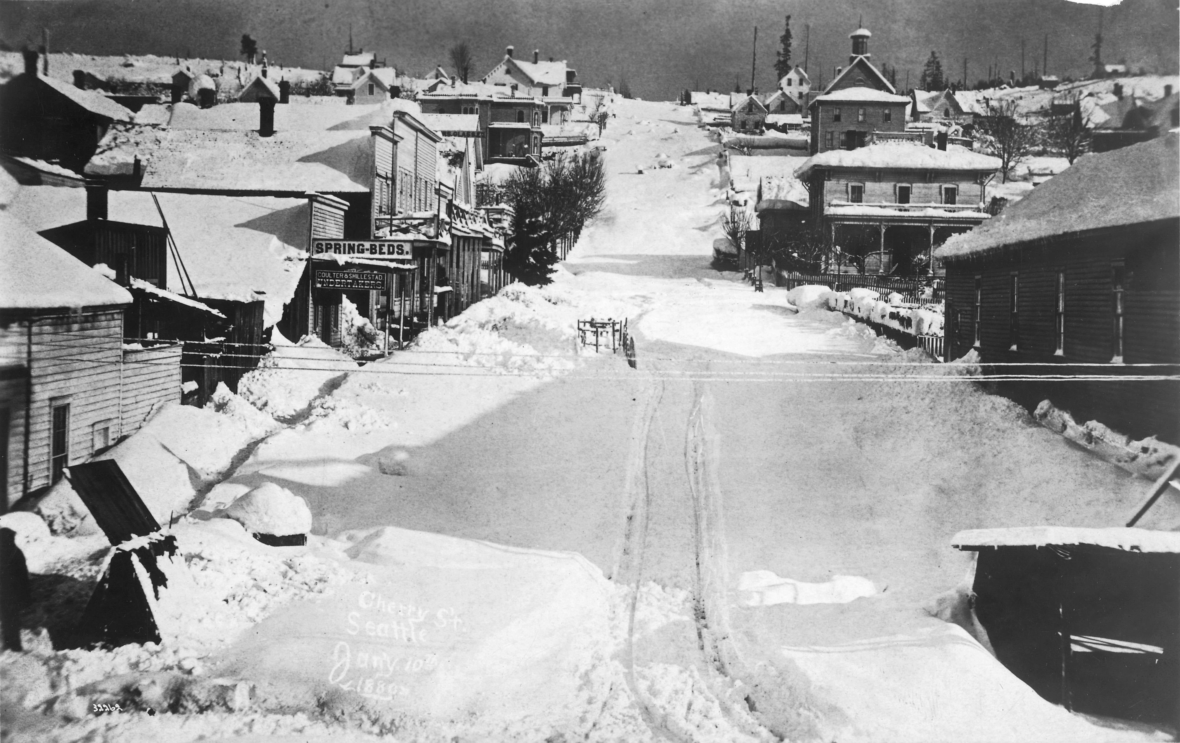 Signs in image include: Coulter & Shillestad, Undertakers . Spring-Beds . Peiser 102a Subjects (LCTGM): Snow--Washington (State)--Seattle